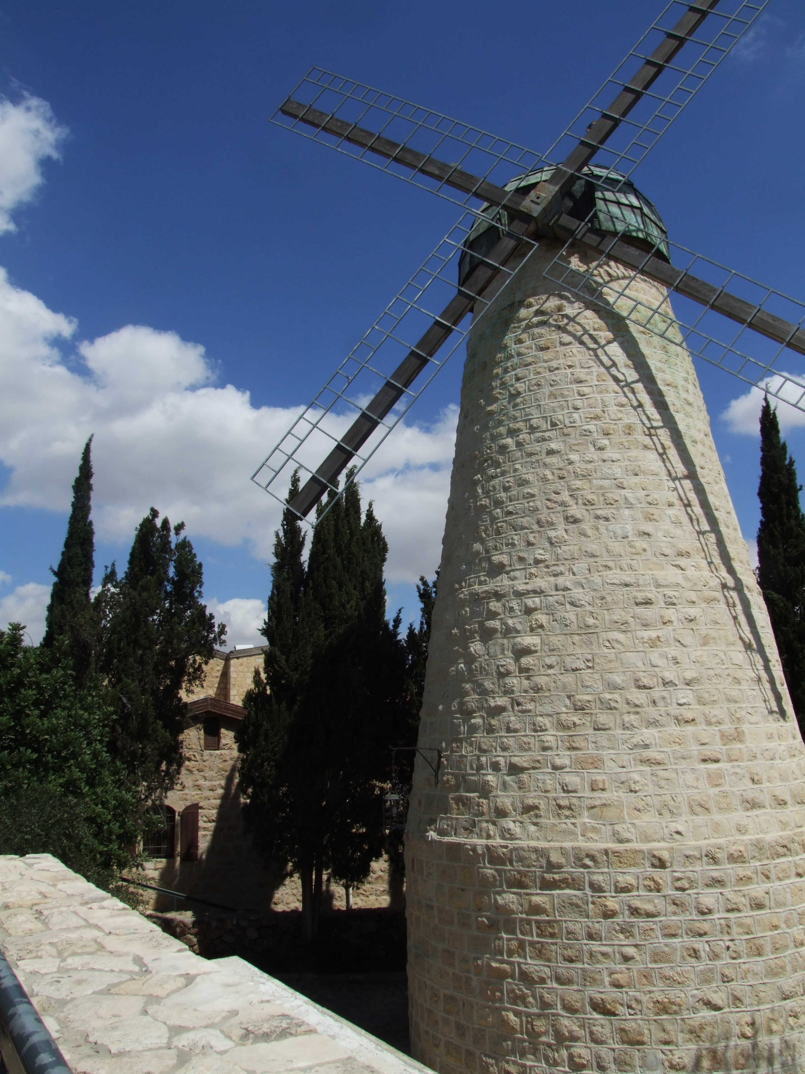 Jerusalem - Yemin Moshe, flour mill, Geography of Israel